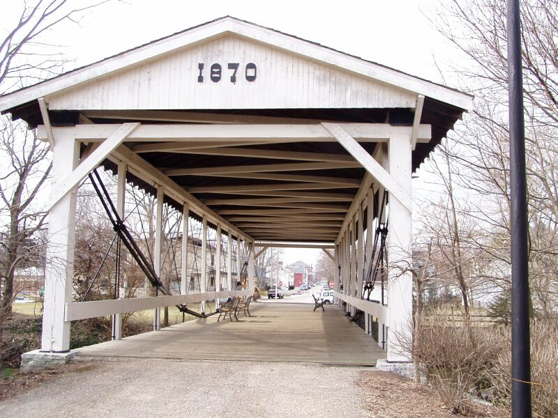 Germantown Covered Bridge, Germantown, Ohio